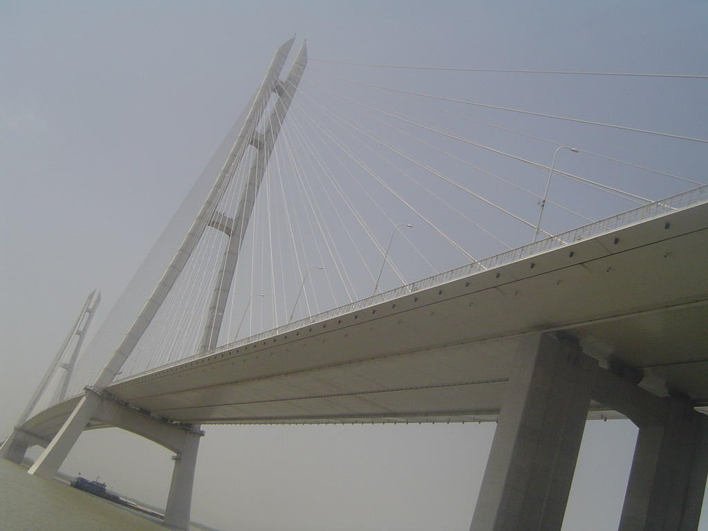 Third Nanjing Bridge in China